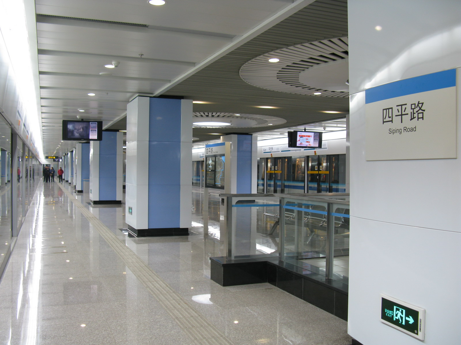 四平路站-8號線月台 Line 8 Platform of Siping Road Station